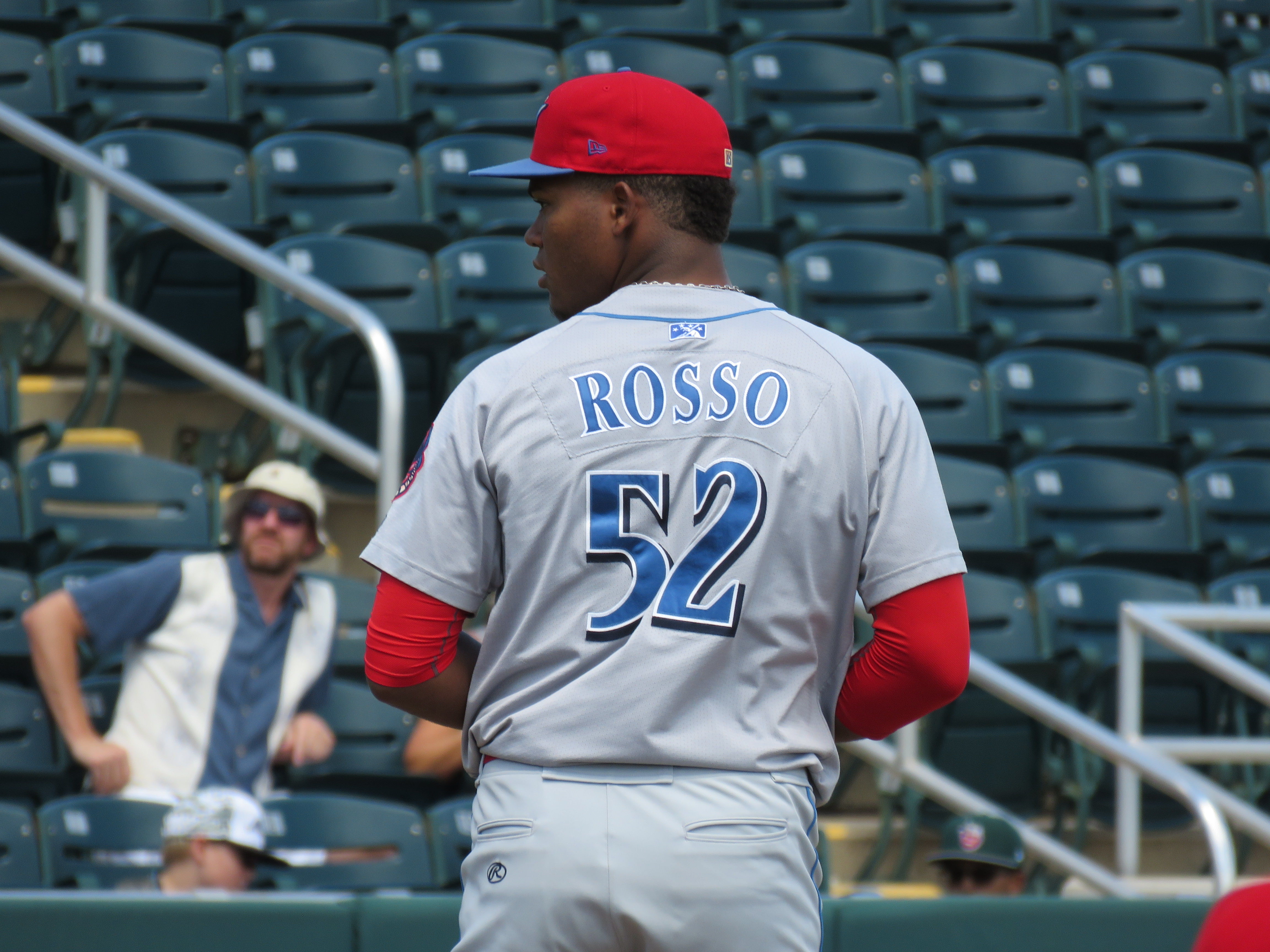 Rosso on the mound